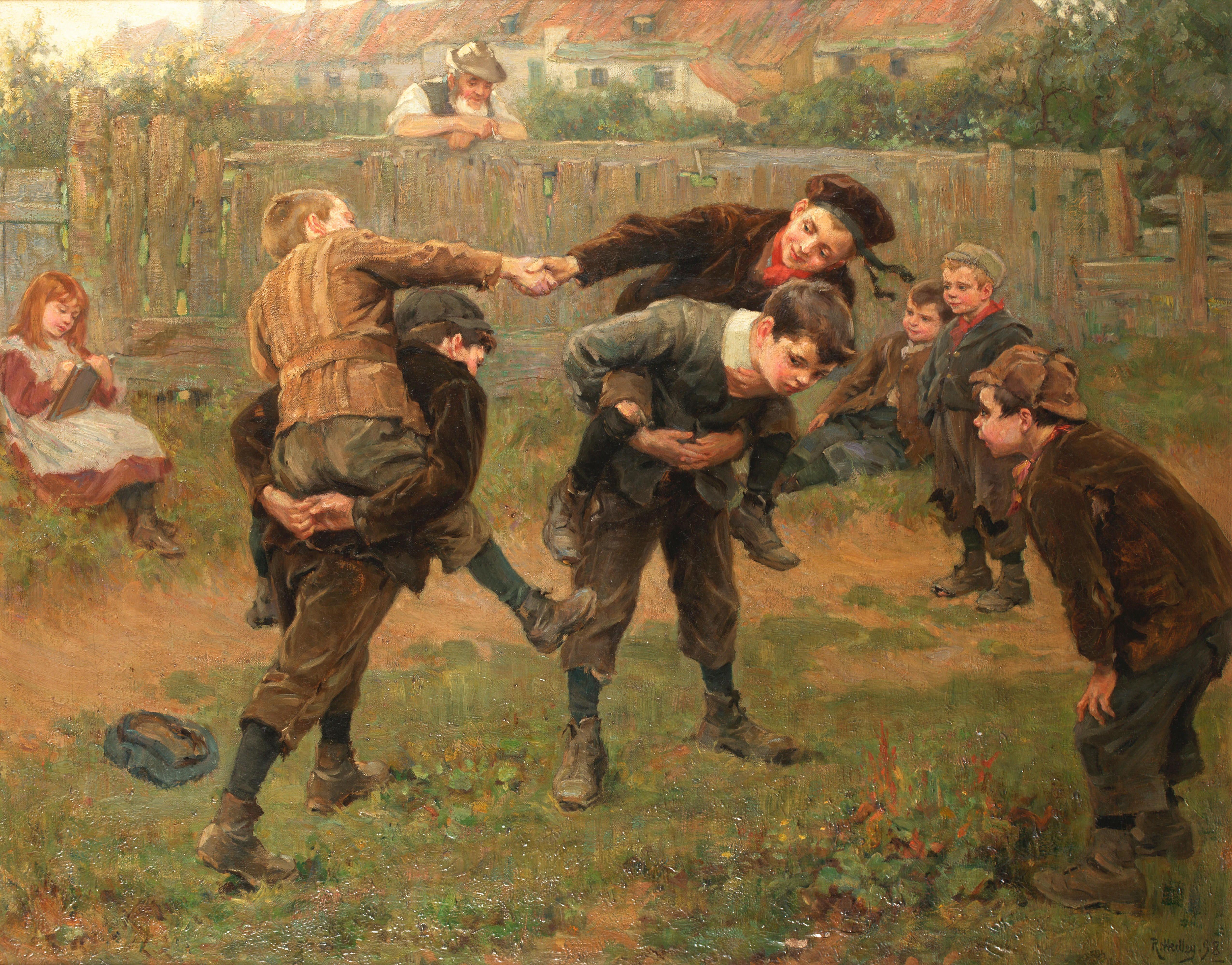 The tournament. Signed and dated R Hedley 98. Oil on canvas. 83 x 103 cm